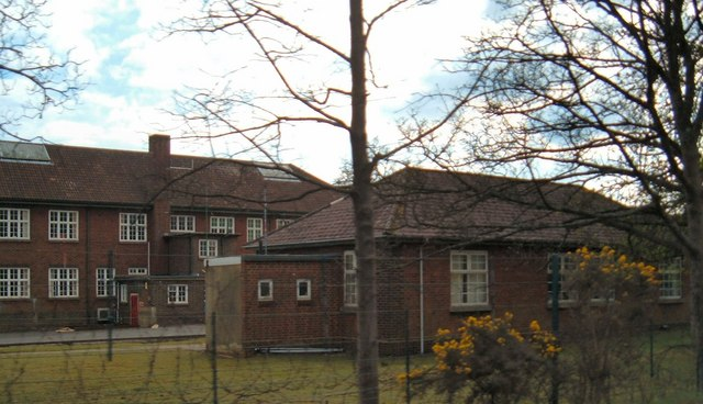 Longmoor Camp Some buildings in the Army training camp.